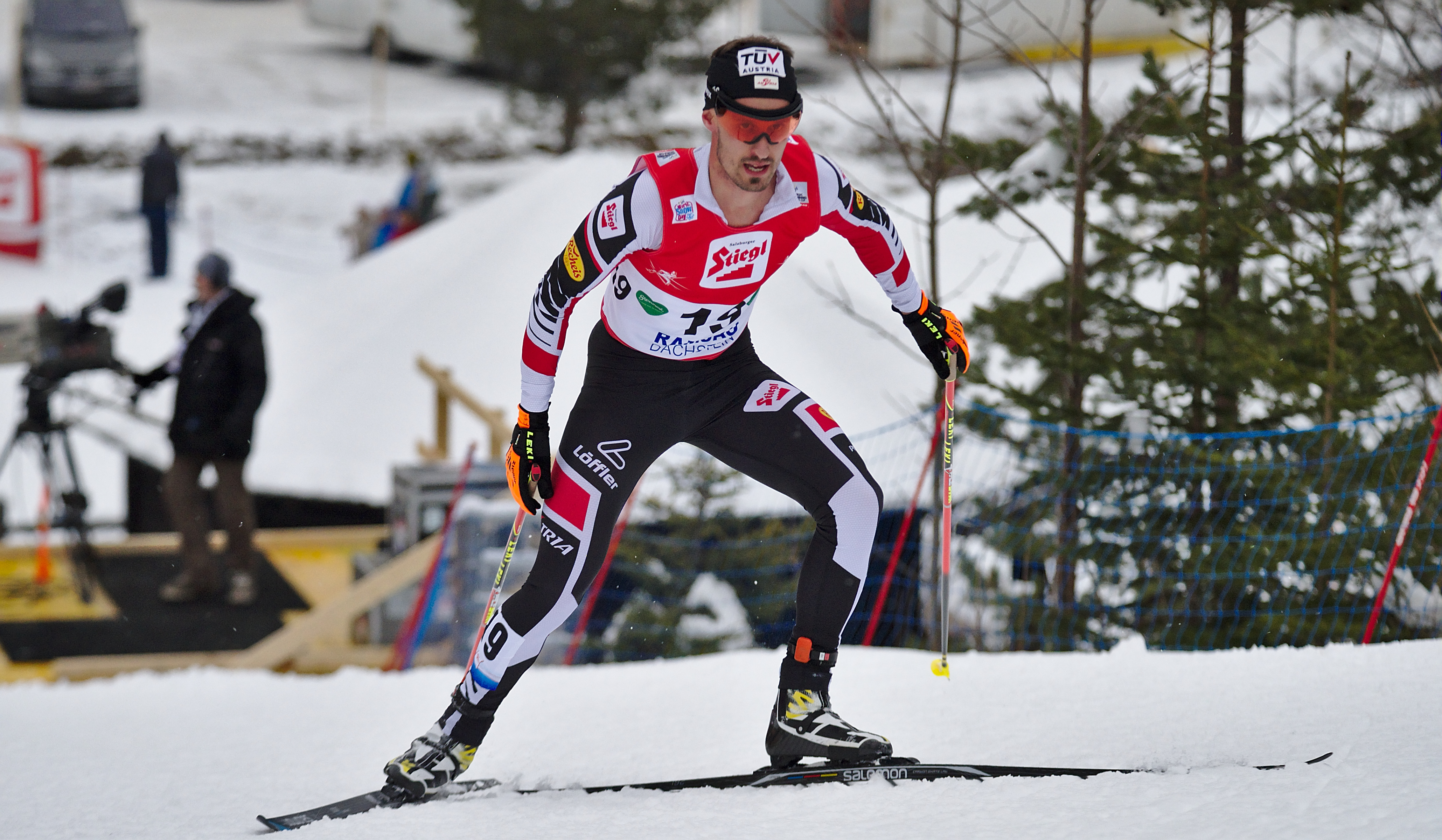 Lukas Klapfer (AUT)